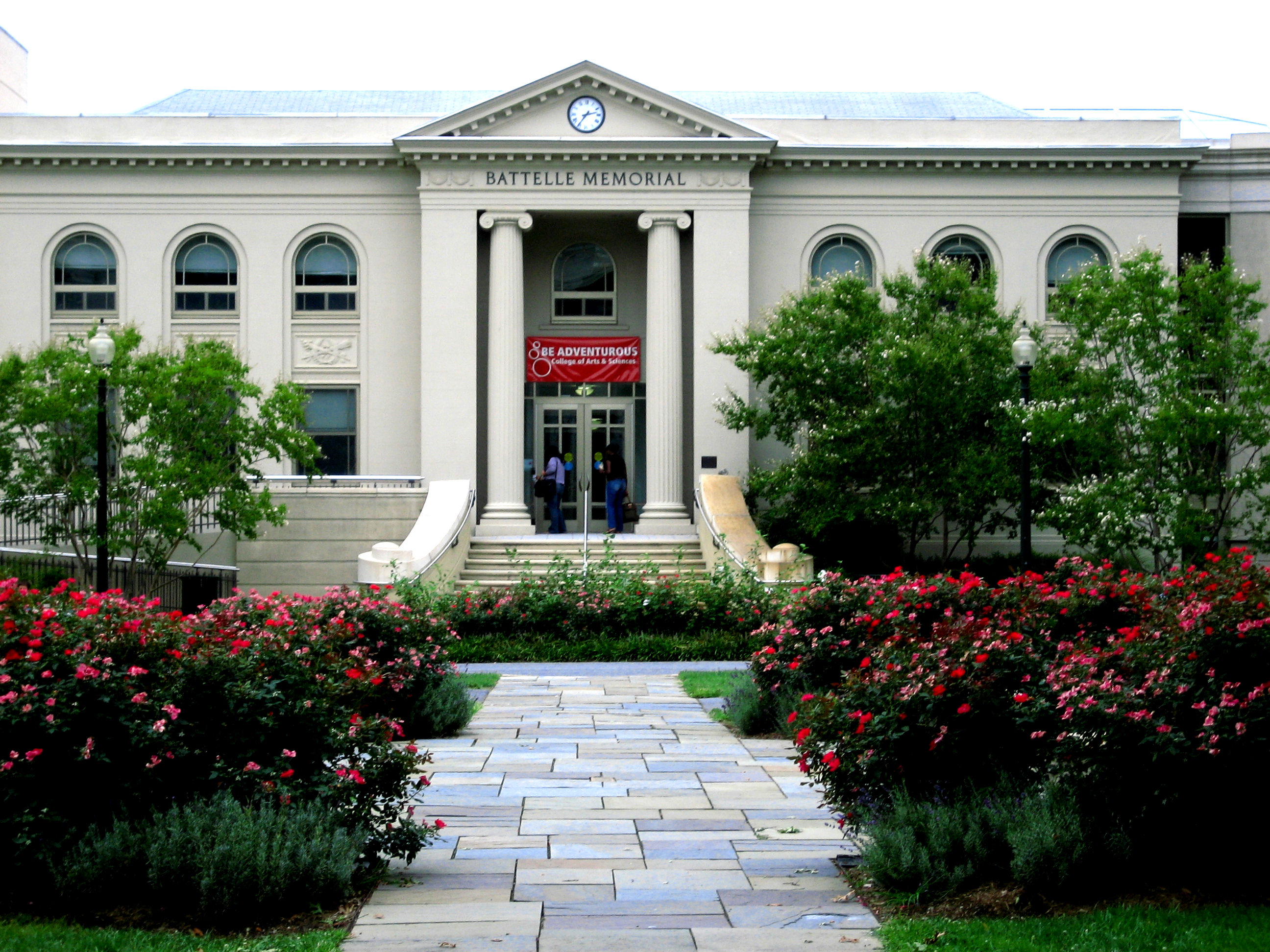 I took this picture Sept 4th, 2006. I edited the contrast with a photoshop program. It is a photo of the Battelle Tompkins building of American University, Washington DC's Campus. Summary I took this picture Sept 4th, 2006. I edited the contrast with a photoshop program. It is a photo of the Battelle Tompkins building of American University, Washington DC's Campus.